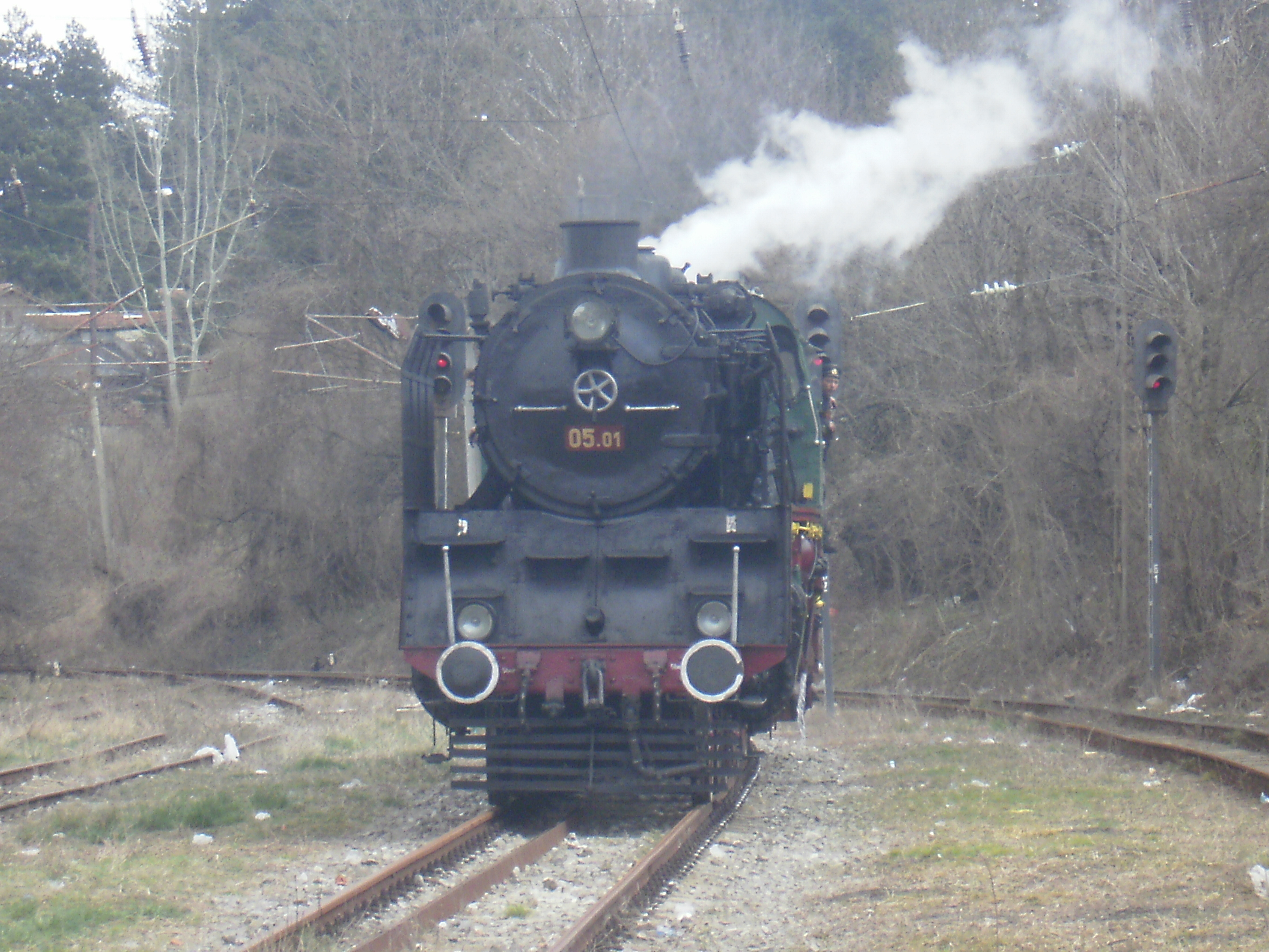 Steam locomotive Sofia - Bankya, Bulgaria.